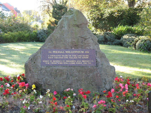 Pelsall Millennium Stone High Street, Pelsall.